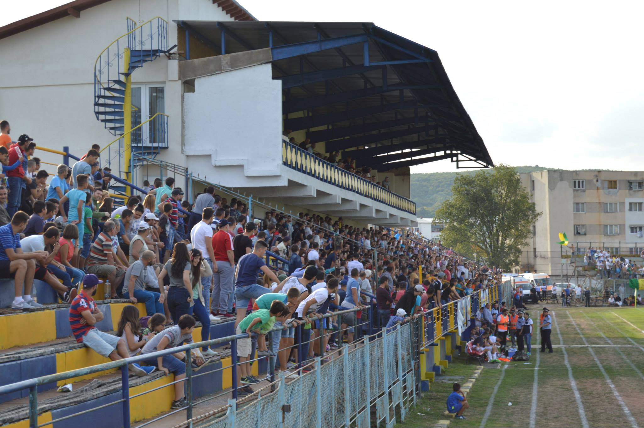 Flacara Moreni supporters during the 2016 promotion match against Vointa Crevedia.